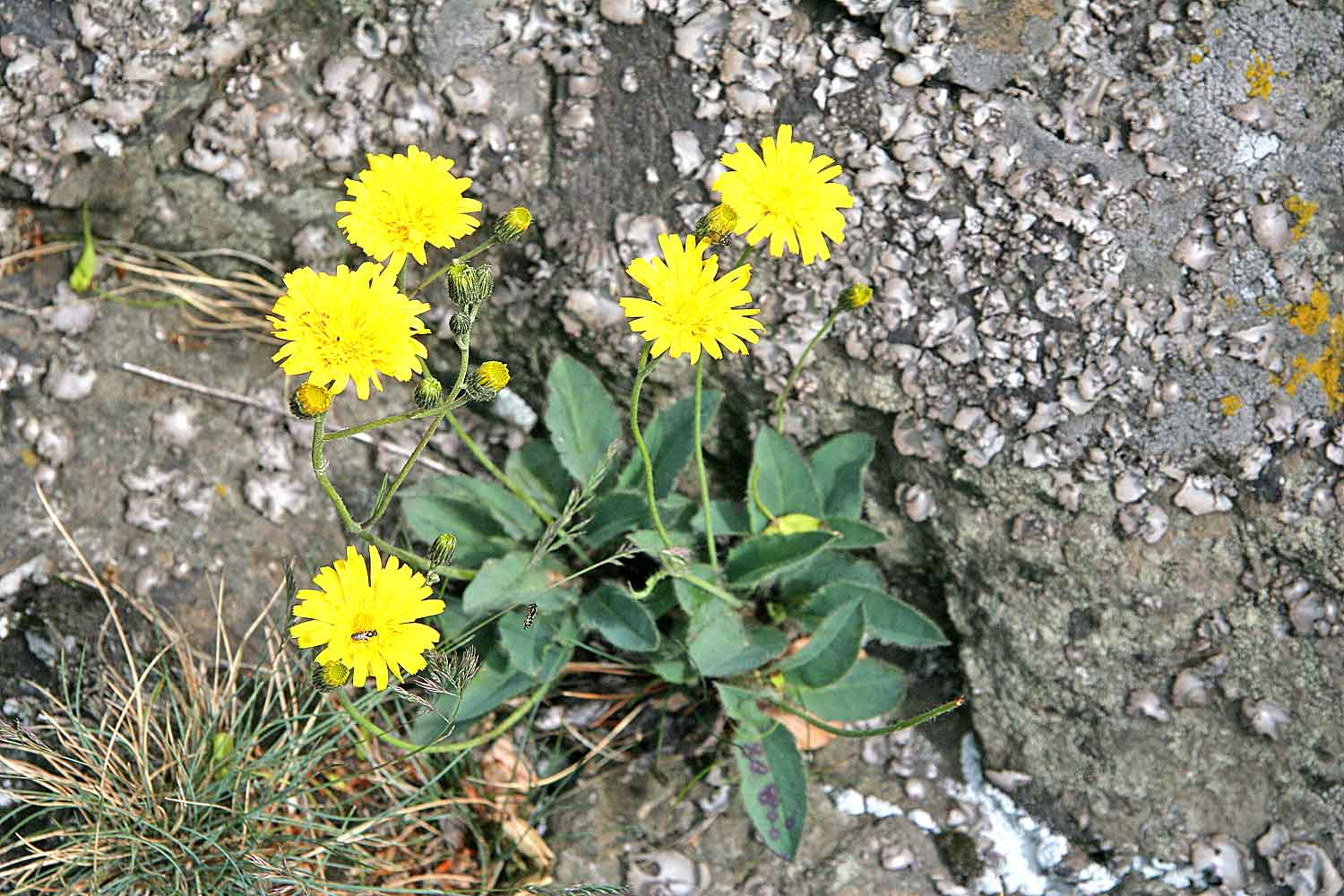 Hieracium pilosella near Ralsko, Czech republic (the leaves are not hairy enough to be pilosella) autor:Prazak